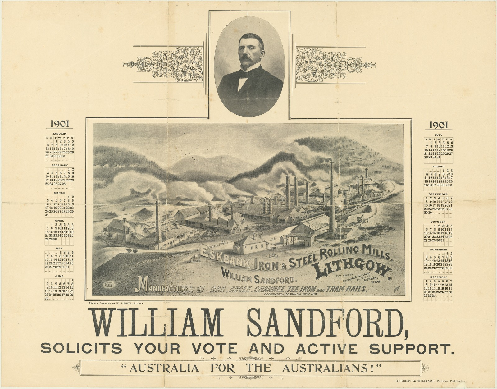 William Sandford - Political advertising calendar (1901) State Library of Victoria